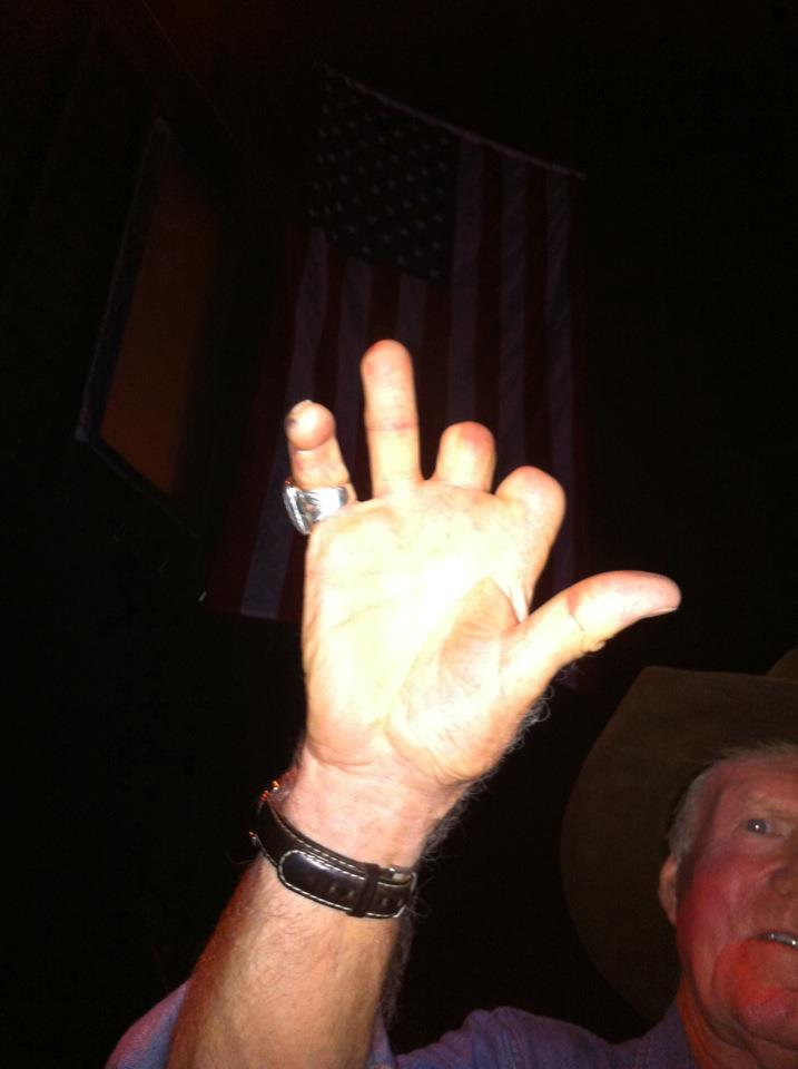 Photograph of Billy Joe Shaver's hand - in Sportsman's Tavern, Buffalo, NY Dec 2011.